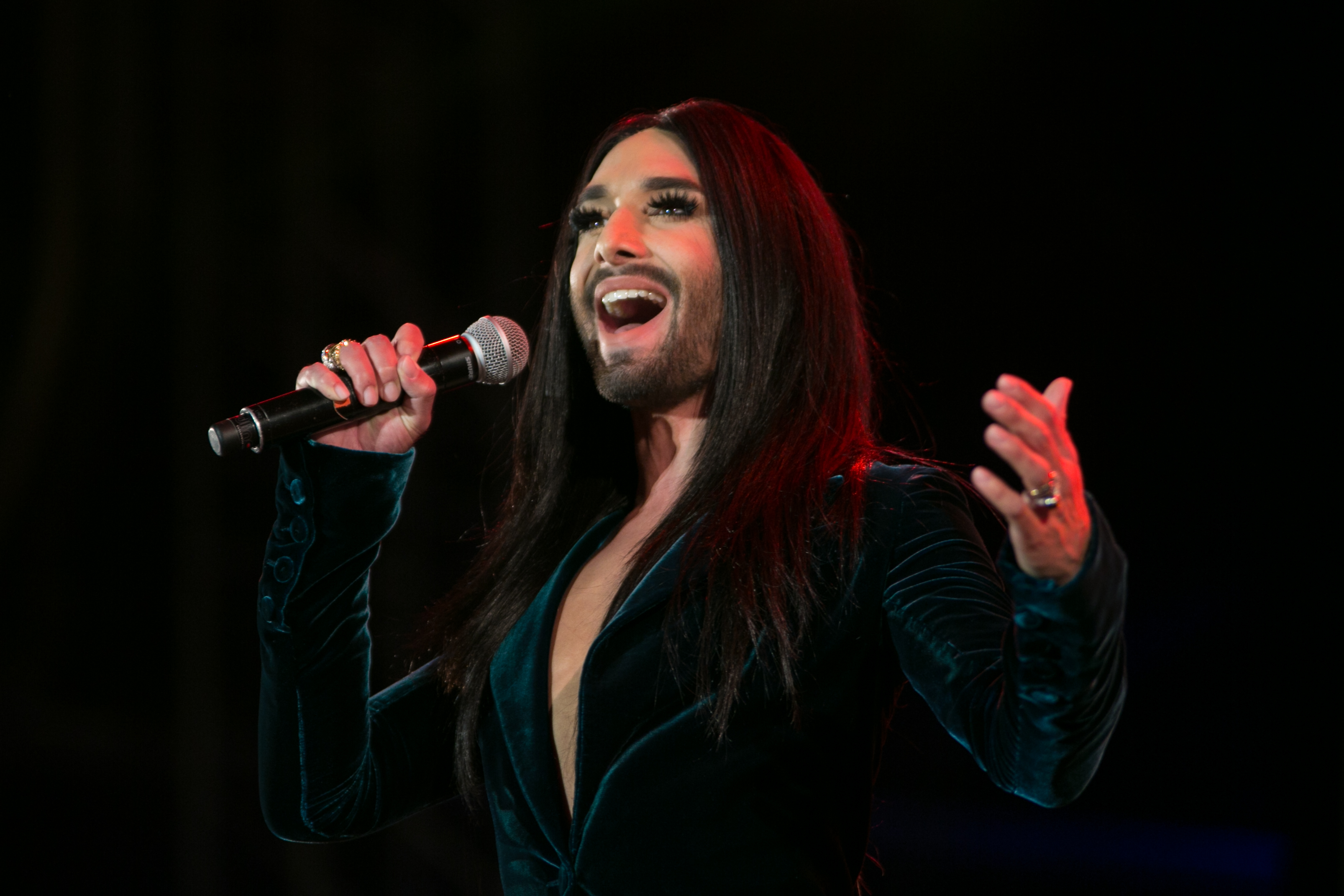 Conchita Wurst